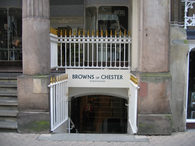 Entrance to Browns of Chester The famous Browns of Chester department store is now part of the Debenhams group. This entrance from Eastgate Street is to the basement area, whilst up the steps, on the row level, is one of the other entrances to the store. There is a benchmark at the base of the right hand stone pillar